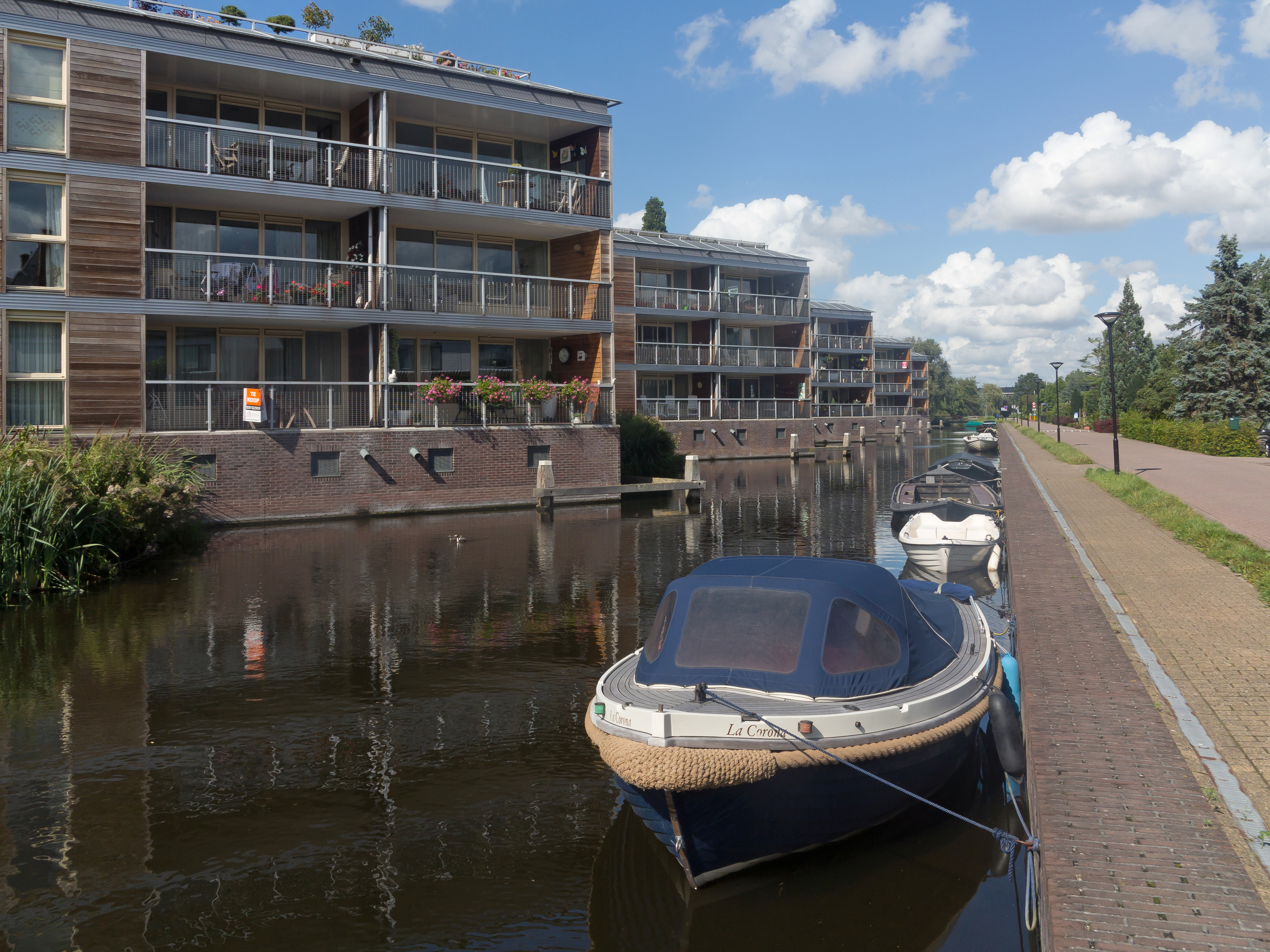 Aalsmeer, view to a street: de Stommeerkade